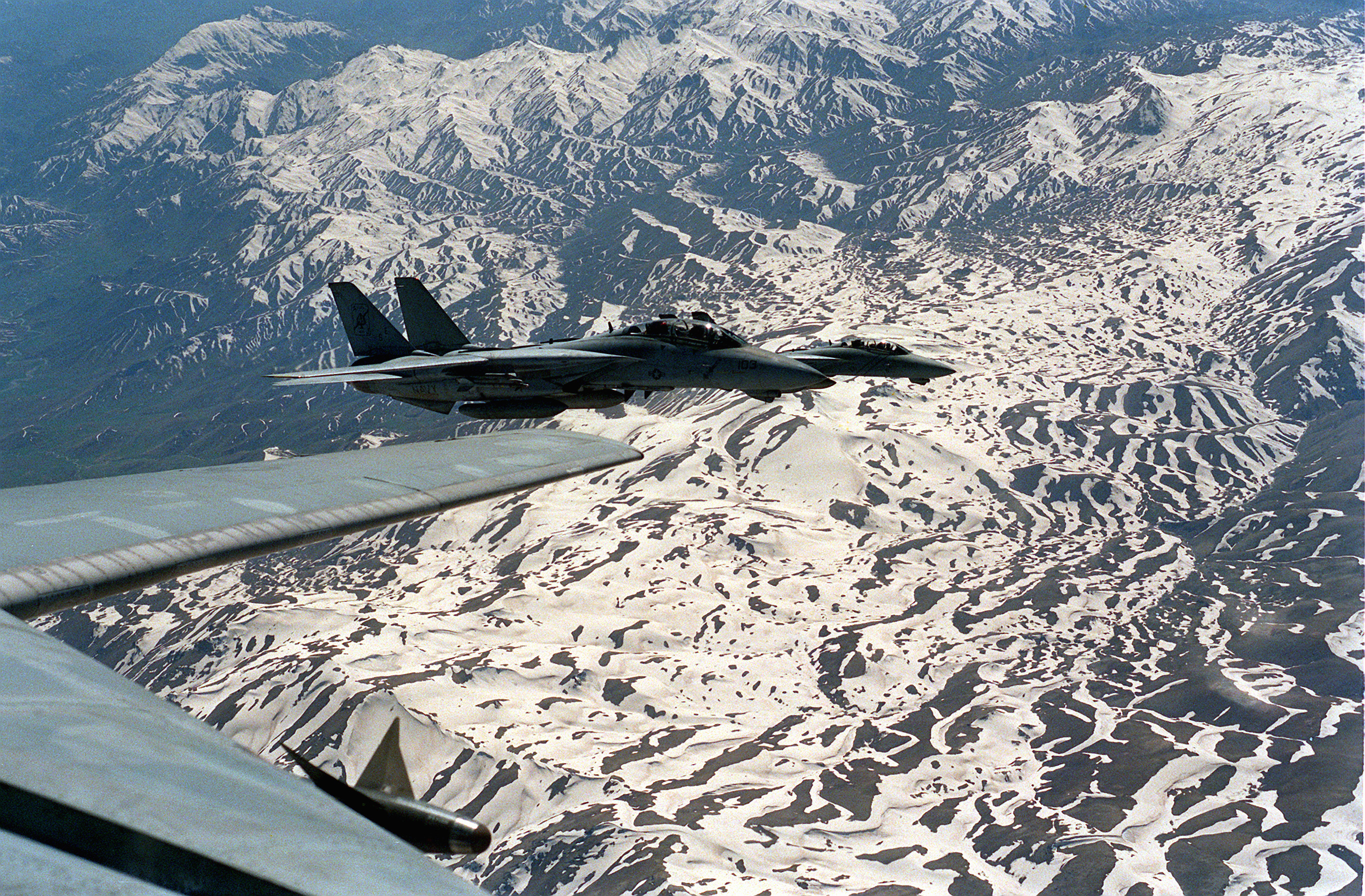 As seen from the cockpit of a Fighter Squadron 41 (VF-41) F-14A Tomcat aircraft, a Fighter Squadron 84 (VF-84) Tomcat, background, and another VF-41 Tomcat fly in formation at an aerial refueling rendezvous point during Operation Provide Comfort, a multinational effort to aid Kurdish refugees in southern Turkey and northern Iraq.